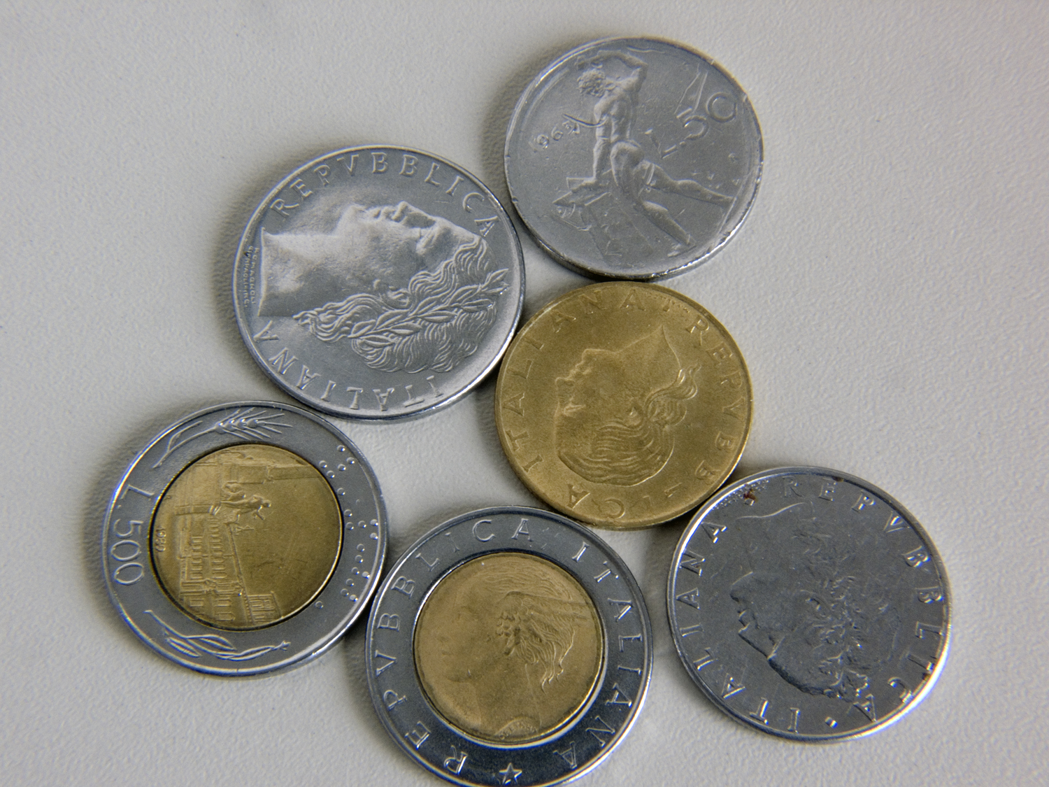 old italian Lira coins